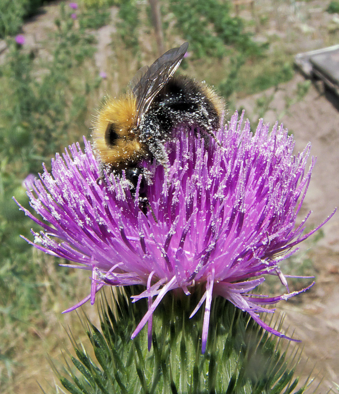 Bombus pascuorum on Cirsium vulgare